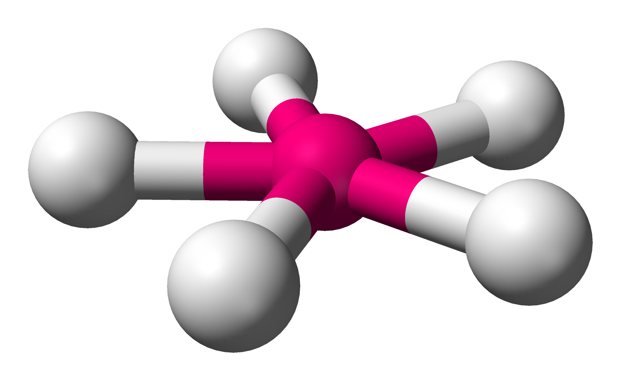 Ball-and-stick model of a generic molecule with pentagonal planar coordination geometry. Colour code: central atom, A: pink ligands, X: white Structure and image generated in Accelrys DS Visualizer.